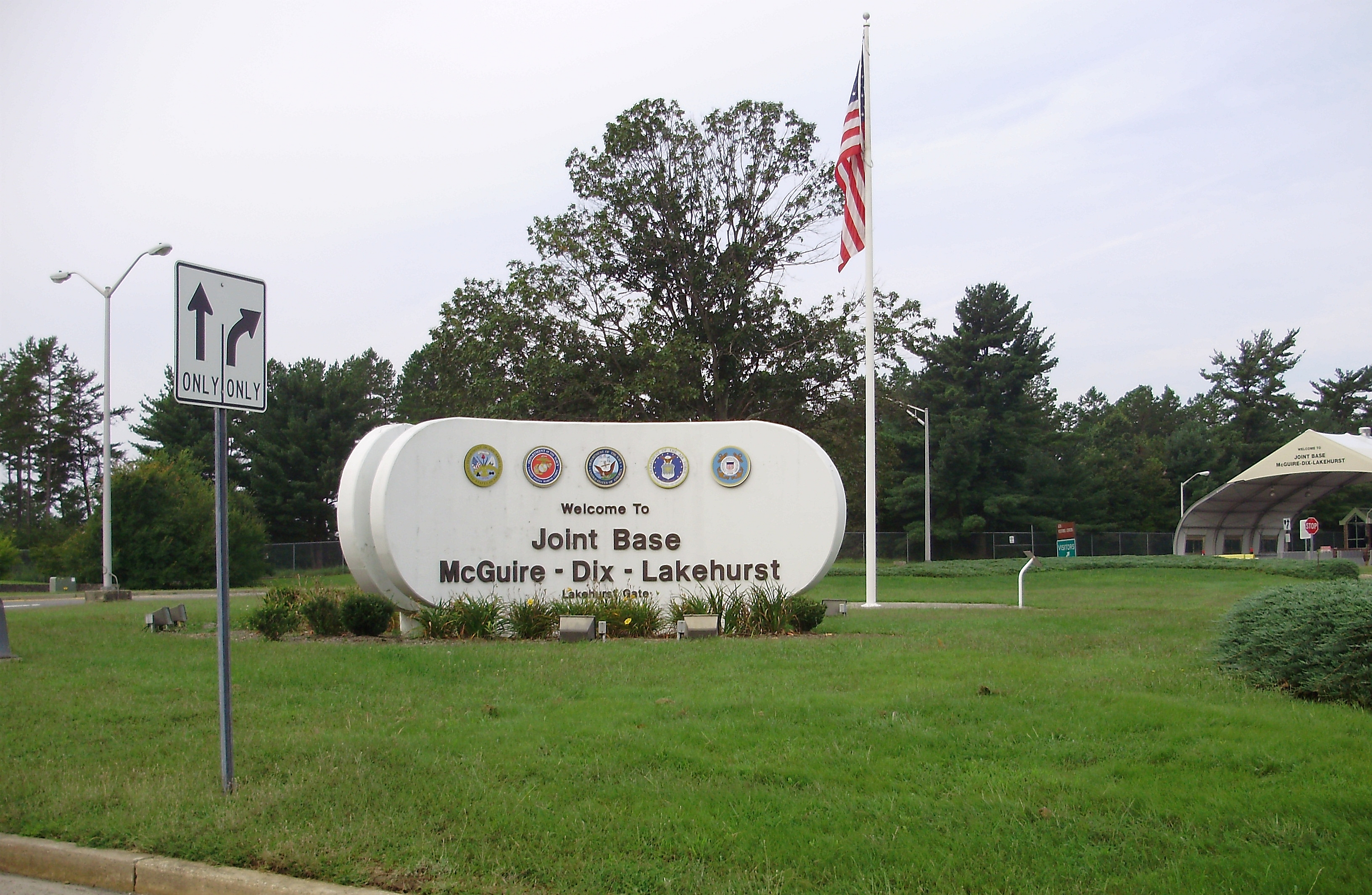 Main entrance of the Lakehurst unit of Joint Base McGuire Dix Lakehurst, New Jersey